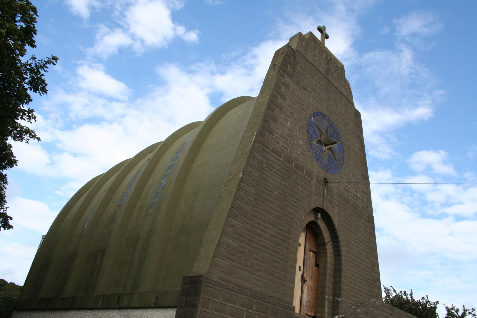 A church found in Anglesey near Amlwch that reminded me more of a bomb shelter. I cannot remember the exact name of the church or the location though.